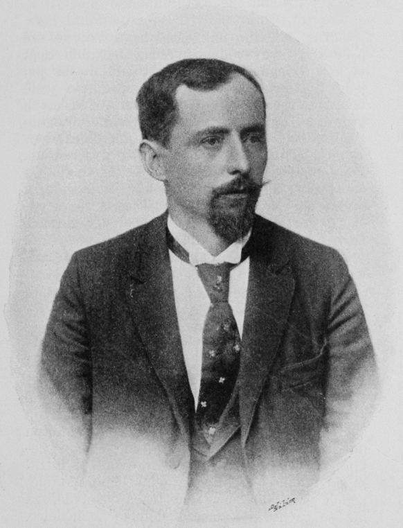 Václav Jansa (1859–1913), Czech painter